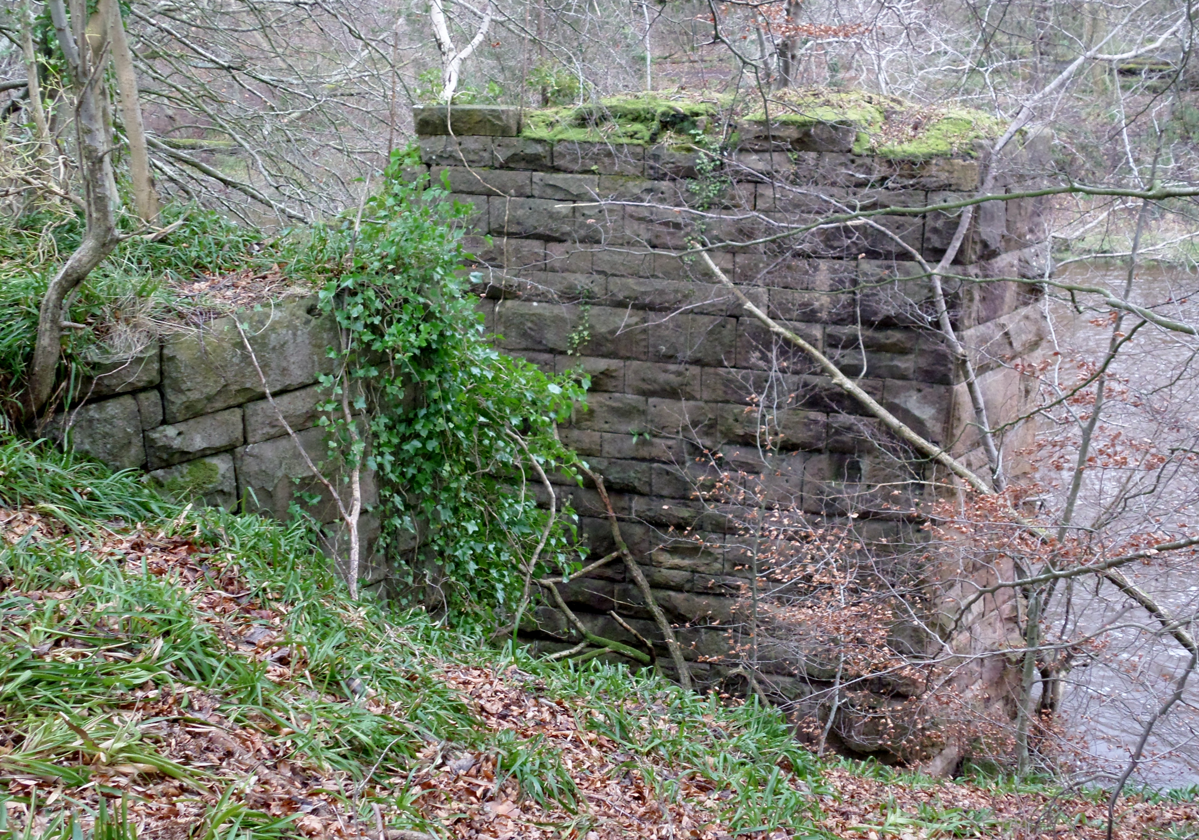 Brockle Bridge piers, Auchincruive Waggonway, River Ayr, Ayrshire. Dating from around 1865.